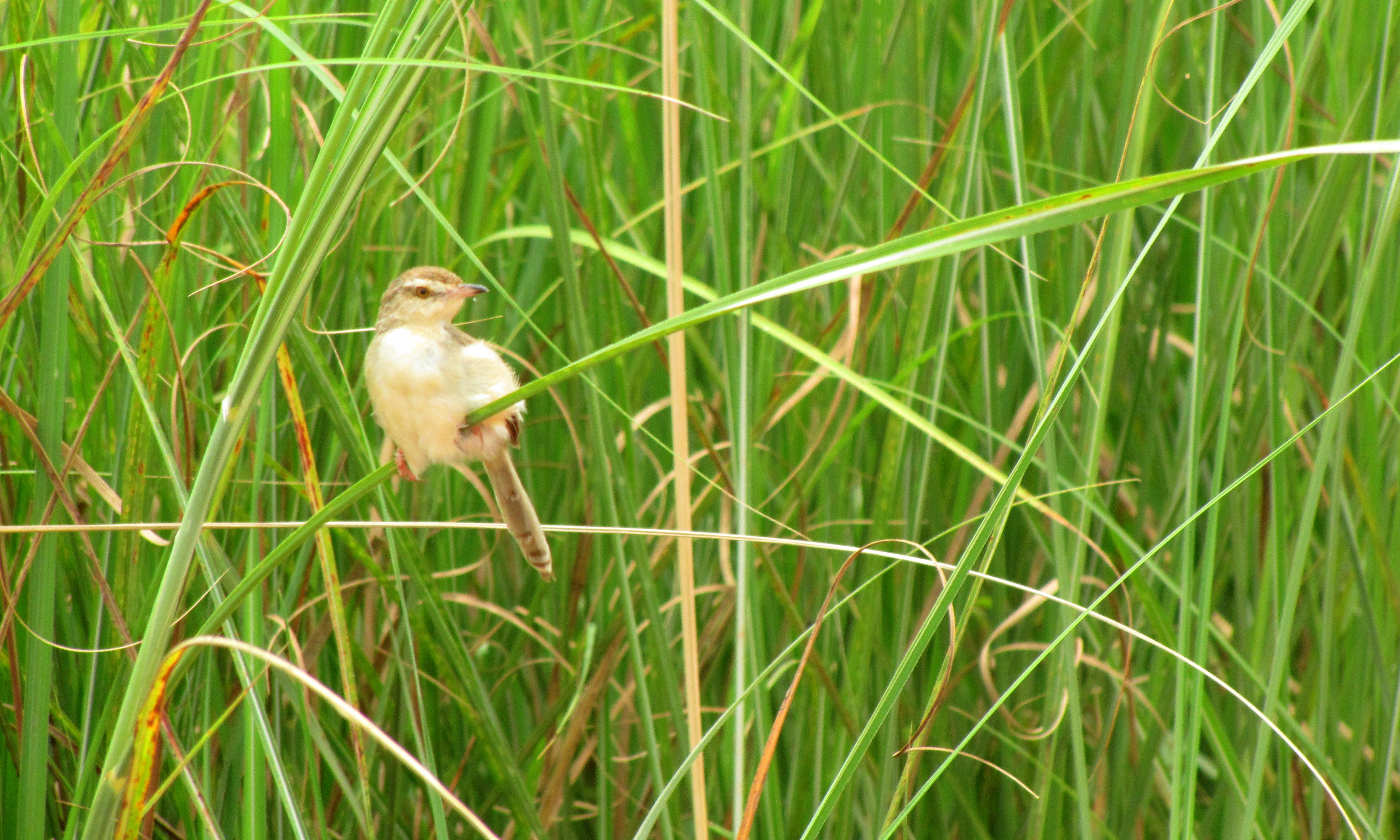 വയൽക്കുരുവി (Plain Prinia)